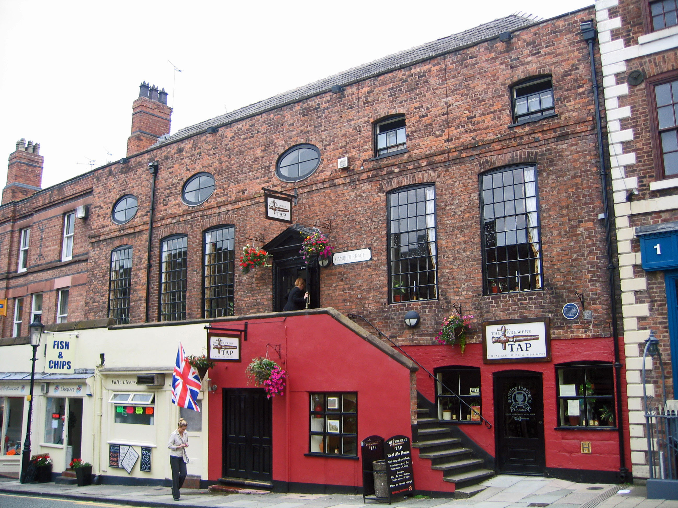 Photograph of Gamul House, Lower Bridge Street, Chester, Cheshire, England